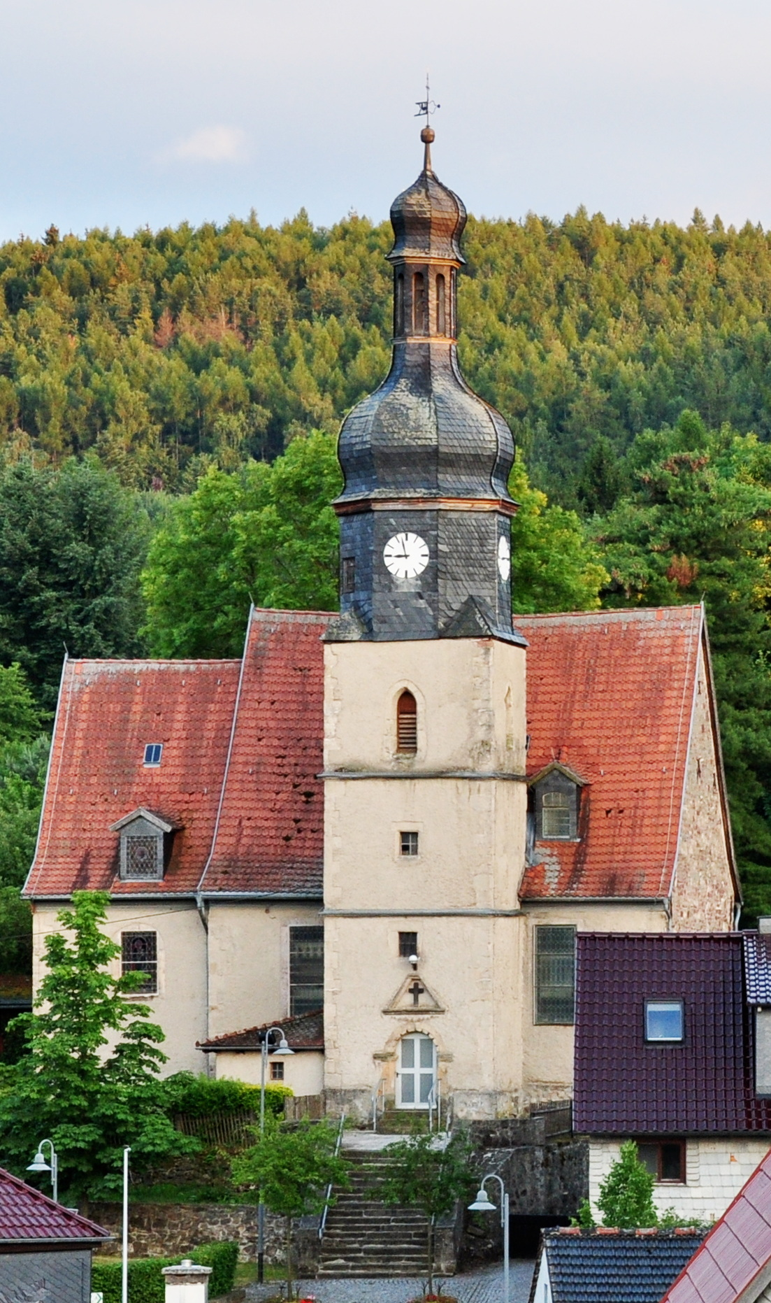 Church in Roda (Ilmenau), Thuringia, Germany (north side)